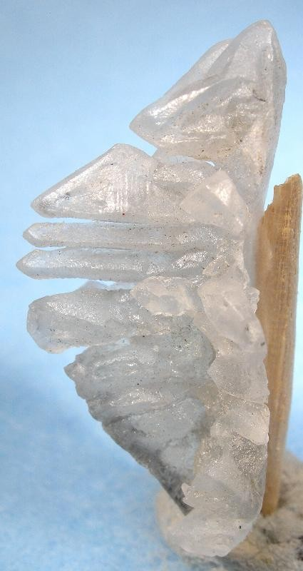 Salammoniac Locality: former Ravat Village, Yagnob River, joint of Zeravshan and Gissar Range, Viloyati Sogd (Viloyati Sughd), Tajikistan (Locality at ) Sal Ammoniac is a weird orgnaic species of ammonium chloride composition. This is a striking Sal Ammoniac crystal with unbelievably sharp and aesthetic spines. Their luster, clarity, and form are terrific, and the little bit of gray along the back spines adds interest and contrast. 2.7 x 1.2 x 1 cm